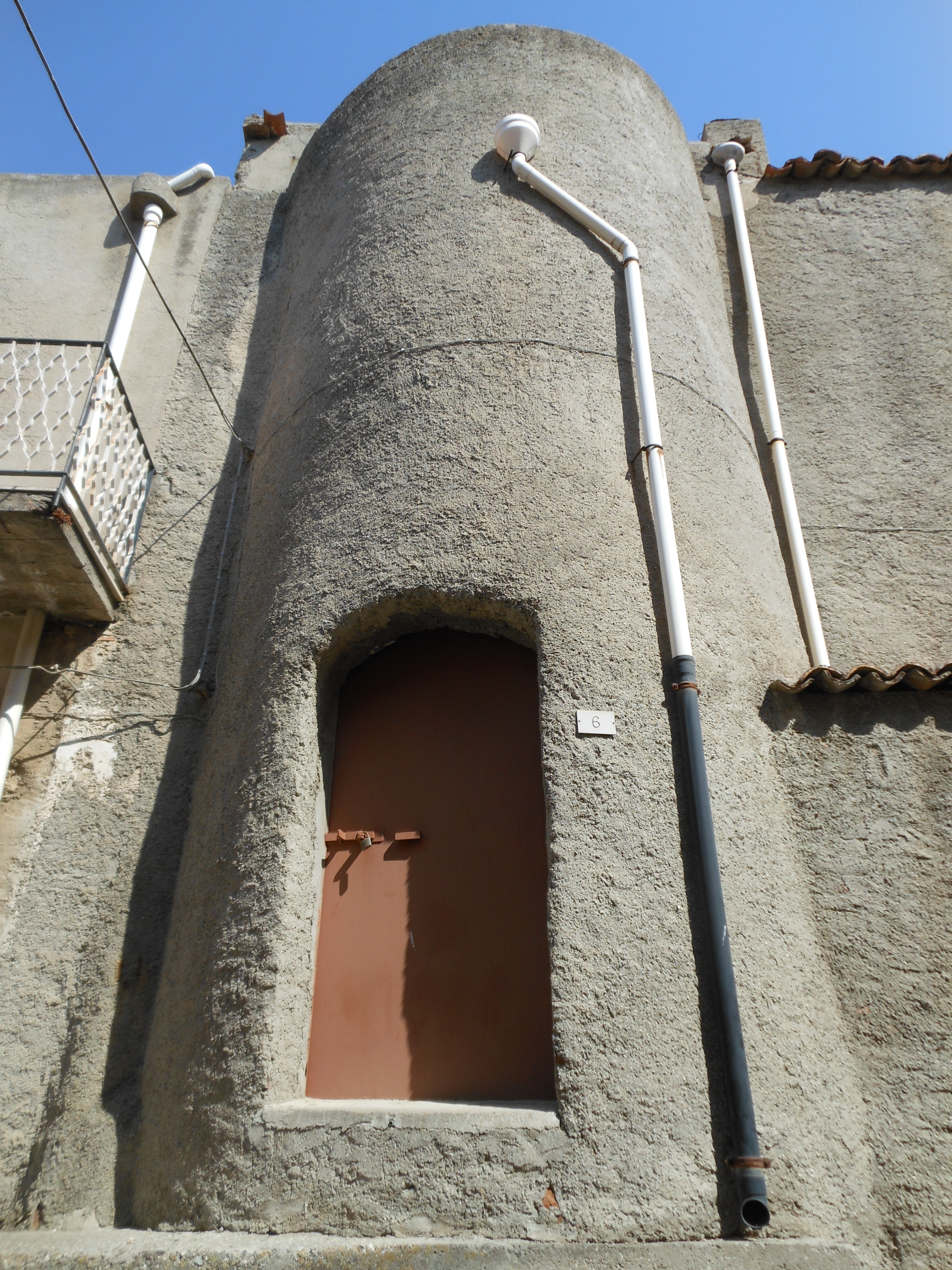 The tower of the ancient Castrum (XVI-XVII century), historic centre of Torregrotta, Italy.